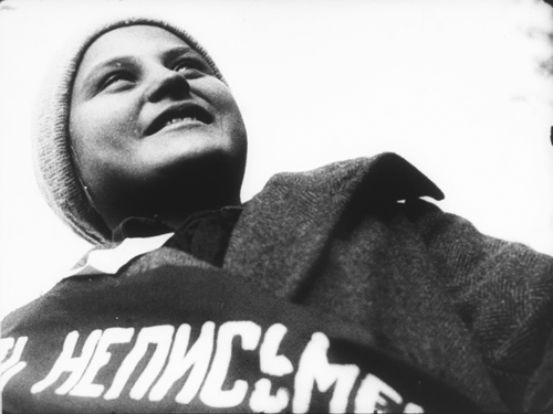 Still from Vertov's Enthusiasm.